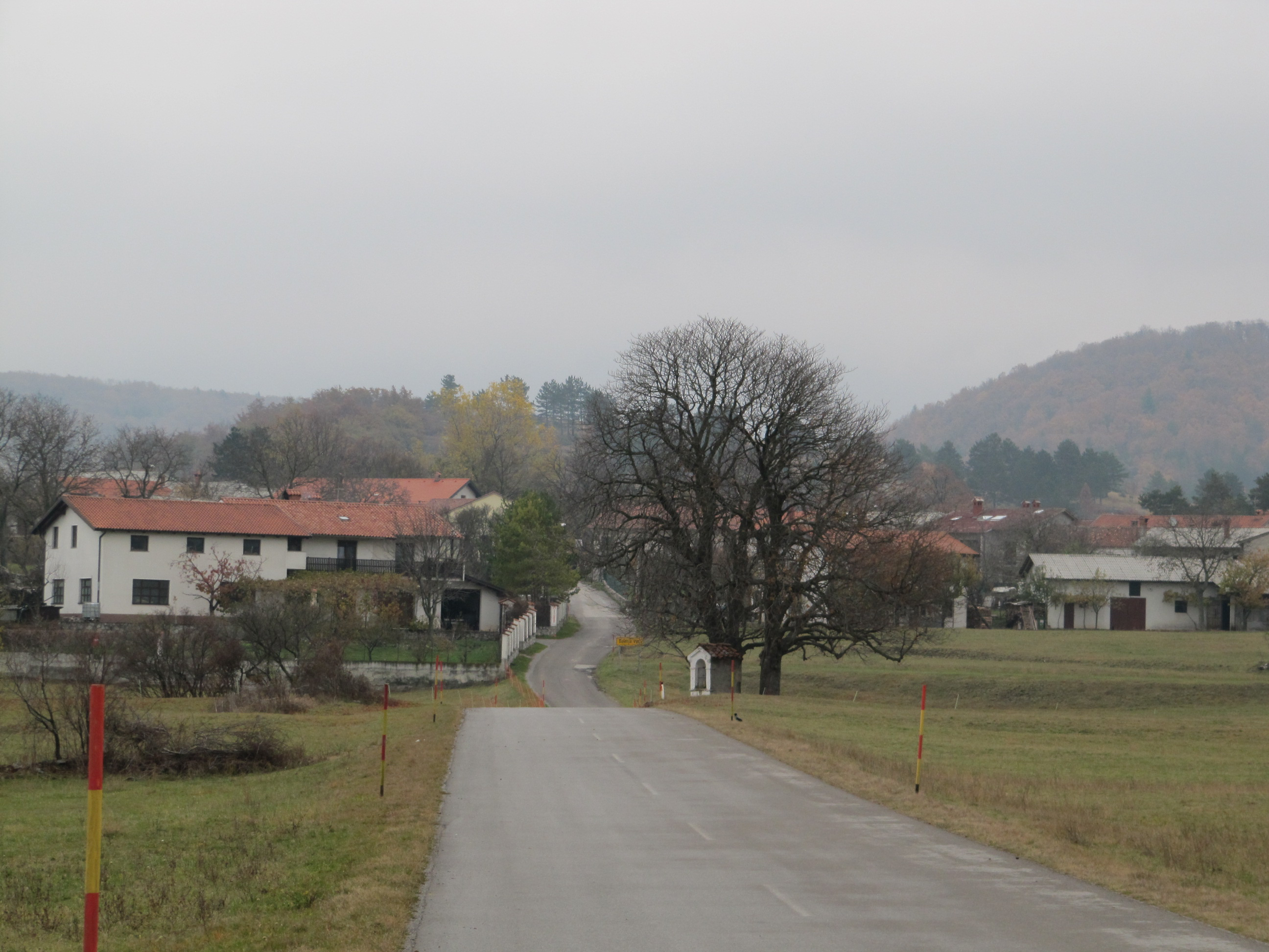 Dolenja vas, village in Slovenia